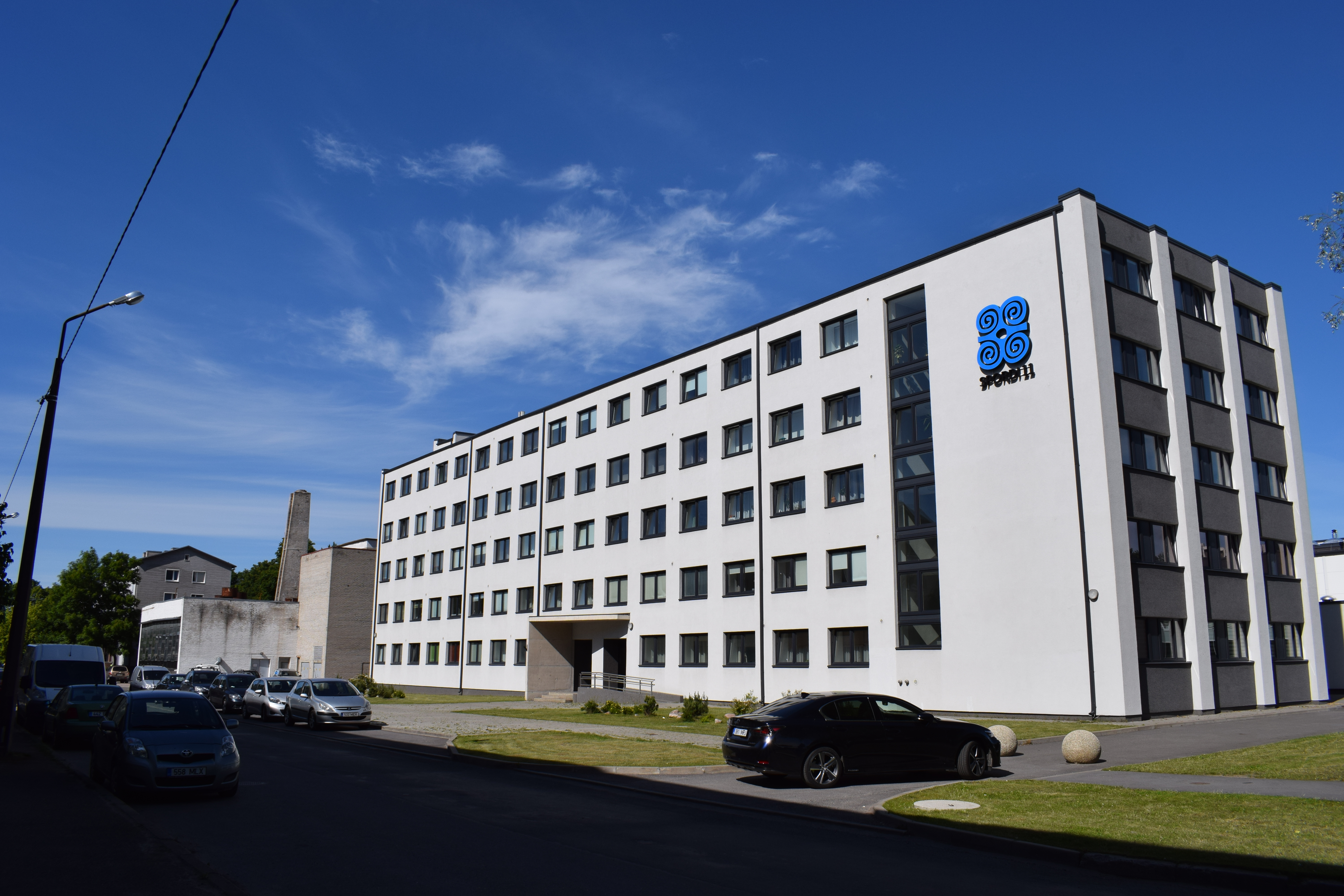 Spordi 11